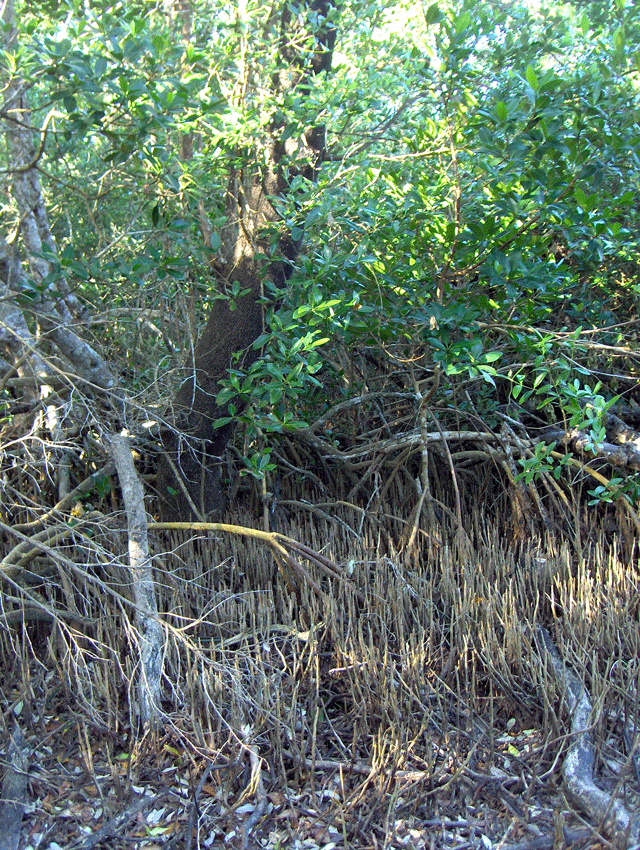 Found in Everglades National Park